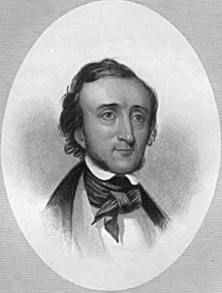 Revised description: Steel engraving by Thomas B. Welch (1814–1874) DescriptionAmerican engraver and painterDate of birth/death 1814 1874Location of birth/death Charleston ParisAuthority control : Q28738402 VIAF: 95862510 ISNI: 0000 0000 8402 5512 ULAN: 500029306 LCCN: nr93007174 BNE: XX1526203 WorldCat creator QS:P170,Q28738402 and Adam B. Walter, circa 1840s.